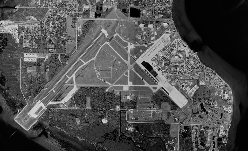 Aerial image of MacDill Air Force Base, Florida